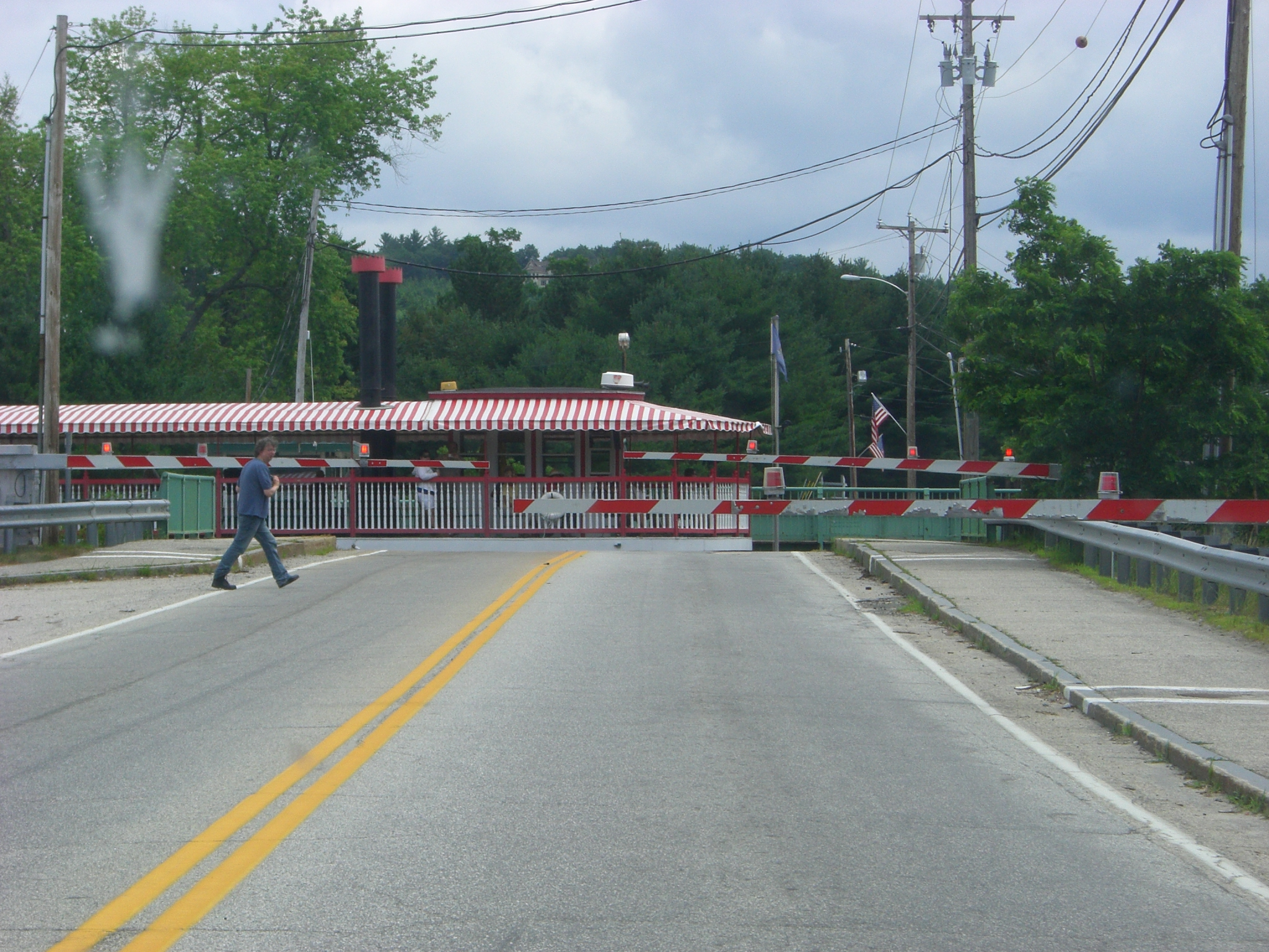 Street view of the old Bay of Naples Bridge, in Cumberland County, Maine, swung open for the Songo River Queen II to pass in 2010. Also known as the Chutes River Bridge and the Naples Causeway Bridge, the 1954-built swing bridge was replaced in 2012 by a fixed-span bridge.